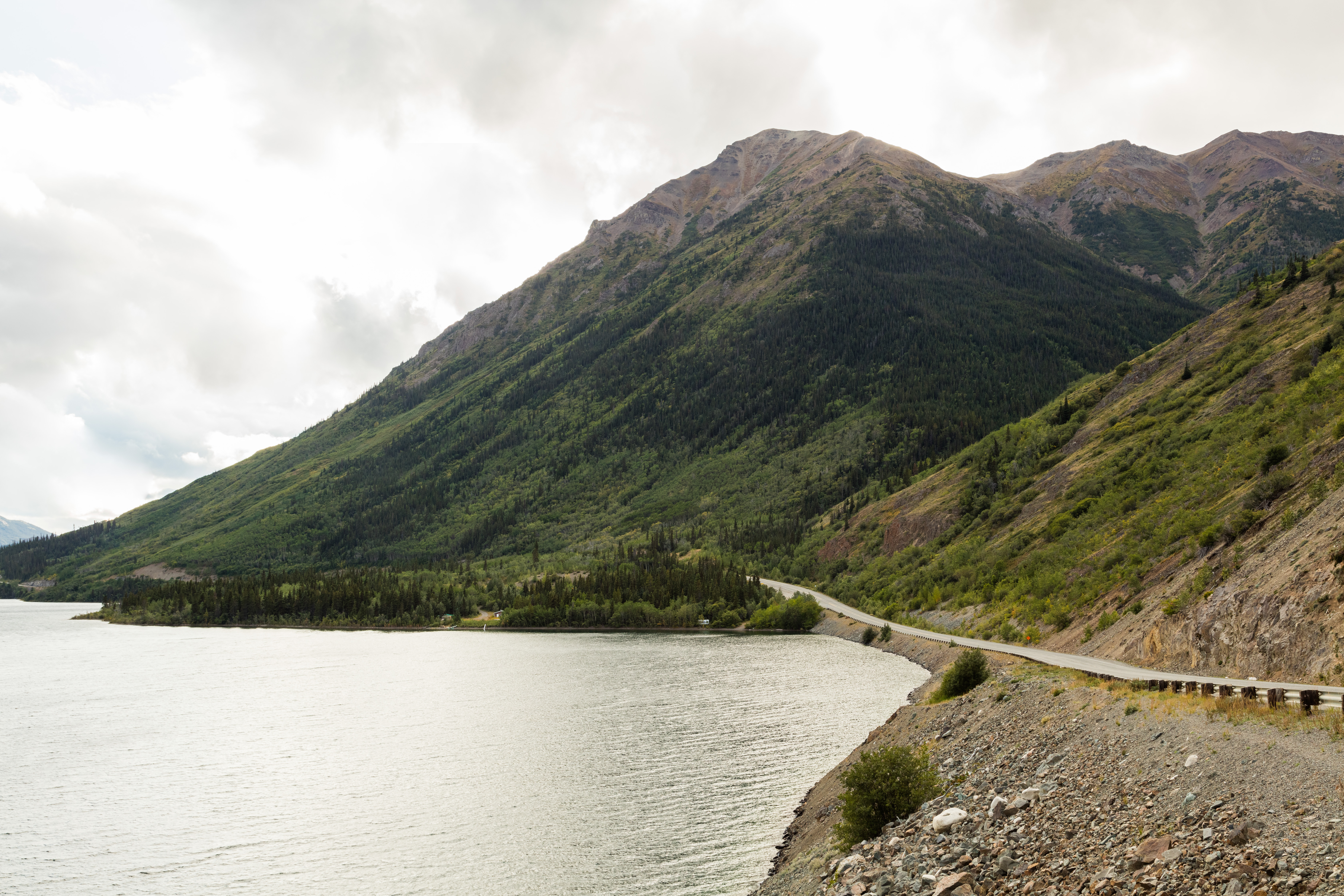 Tutshi Lake, British Columbia, Canada